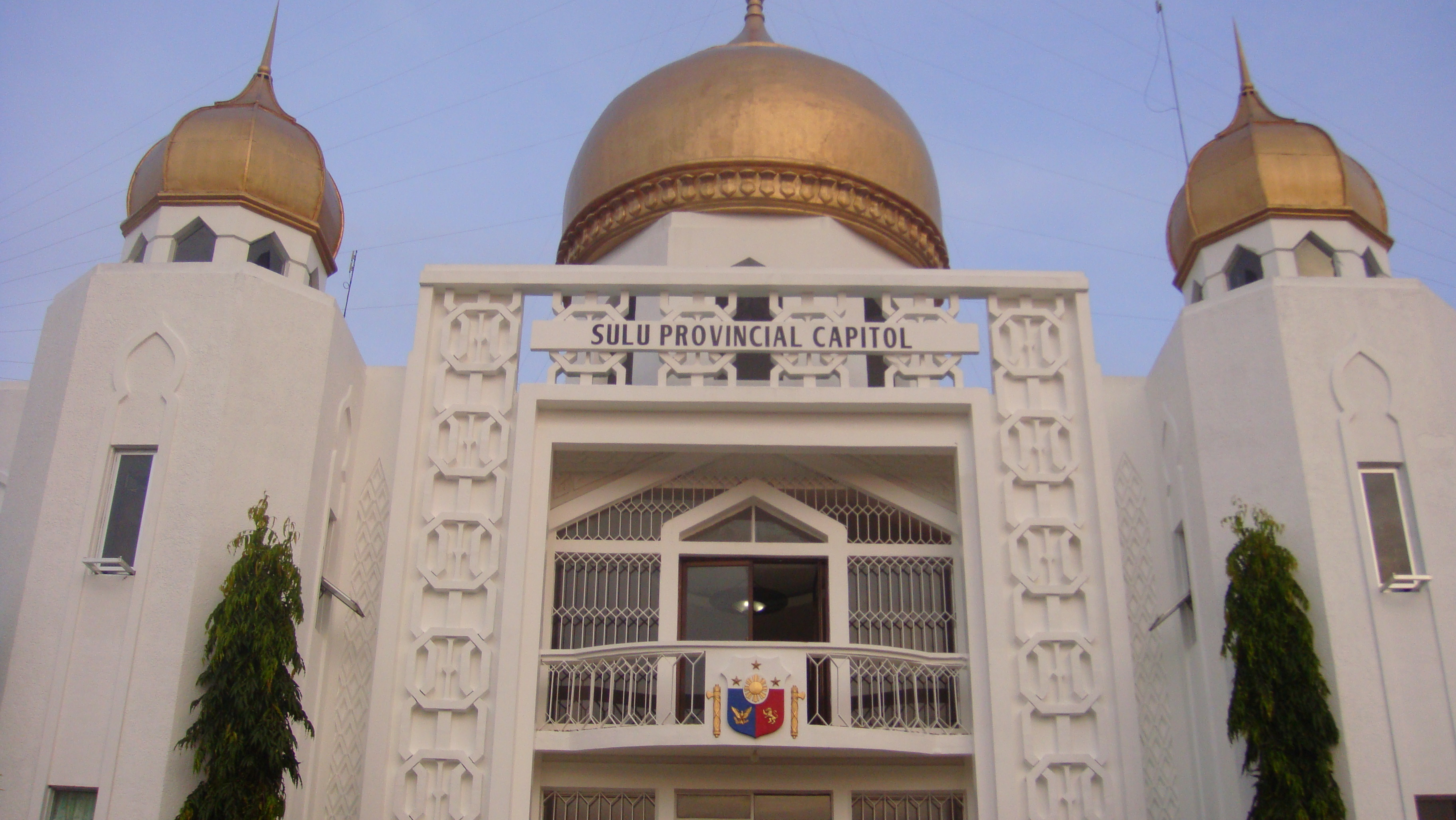 The façade of the Sulu Provincial Capitol building — in Jolo, Sulu Province, Autonomous Region in Muslim Mindanao. In the Mindanao region of the southern Philippines.